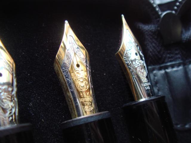 Montblanc 149 nibs